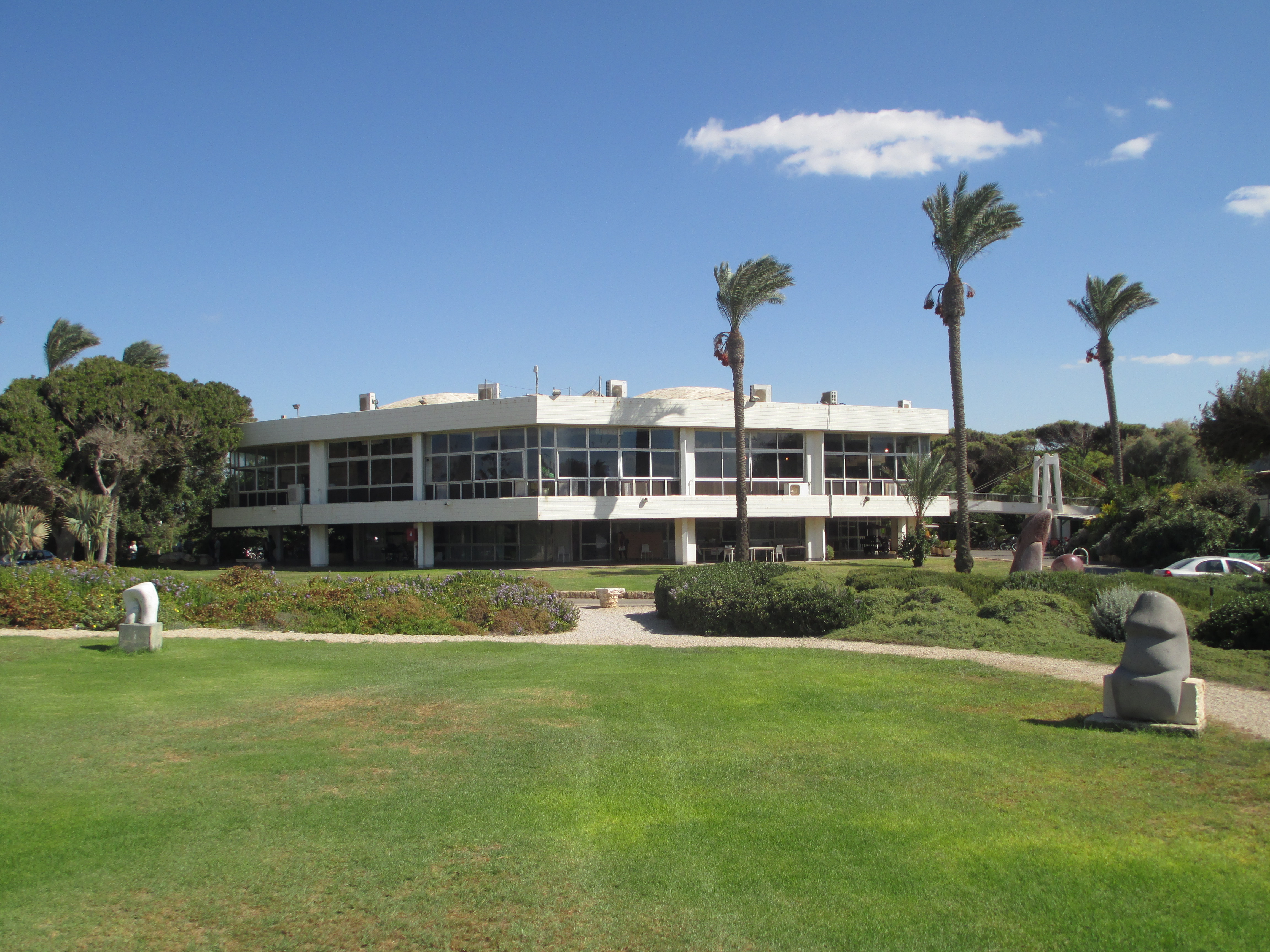 Kibbutz Sdot Yam-Dining hall